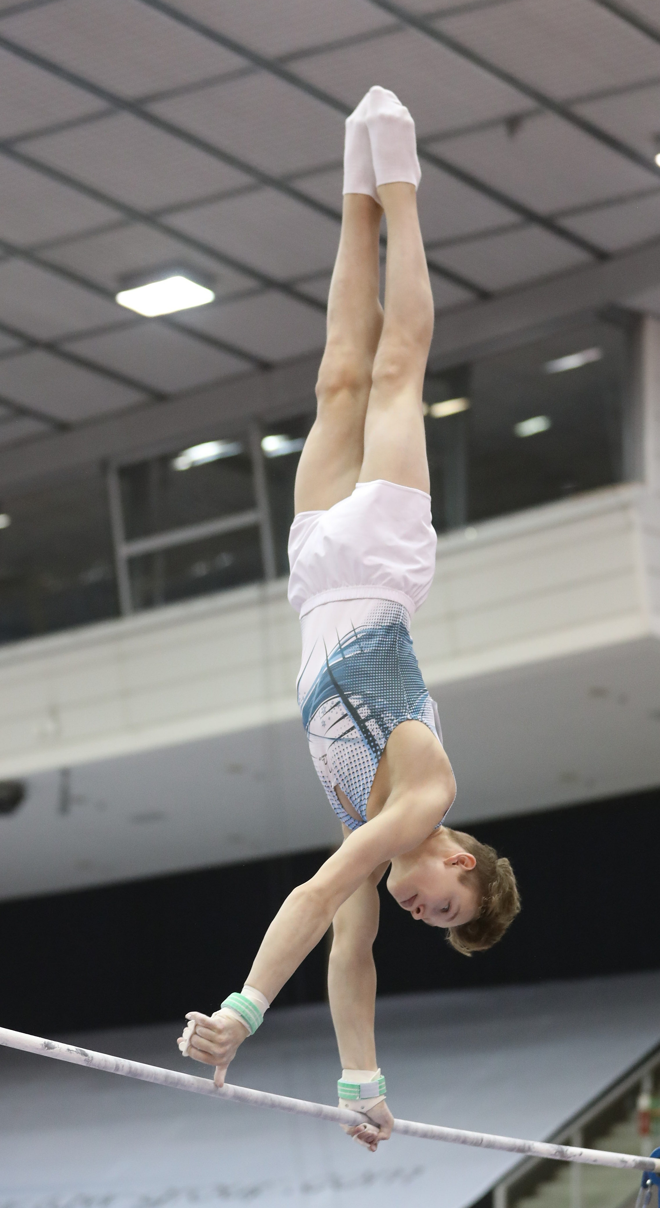 Warm-up of the third group on horizontal bar at the 15th Austrian TGW Future Cup Linz 2018. Depicted: Jurii Busse.